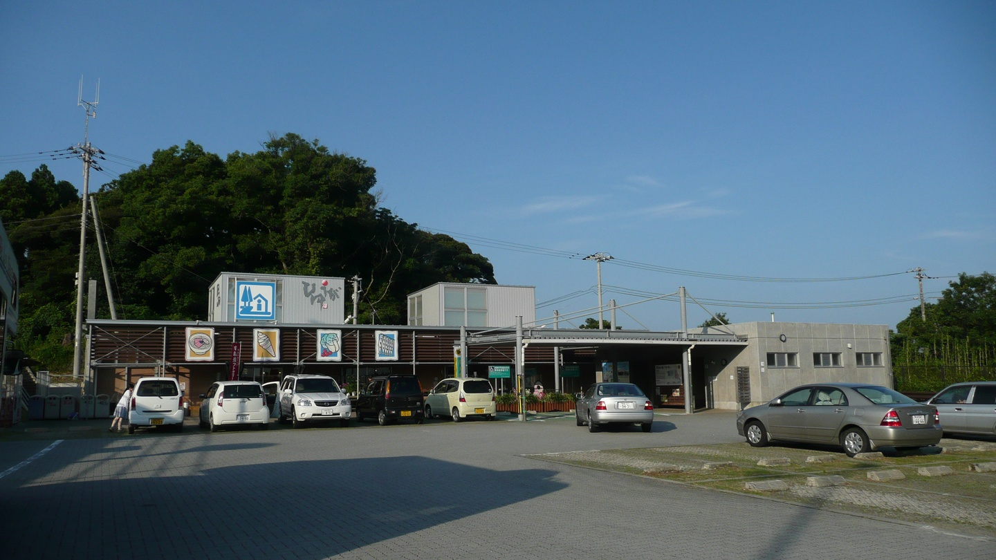 Michinoeki Hyuga (Miyazaki, Japan)